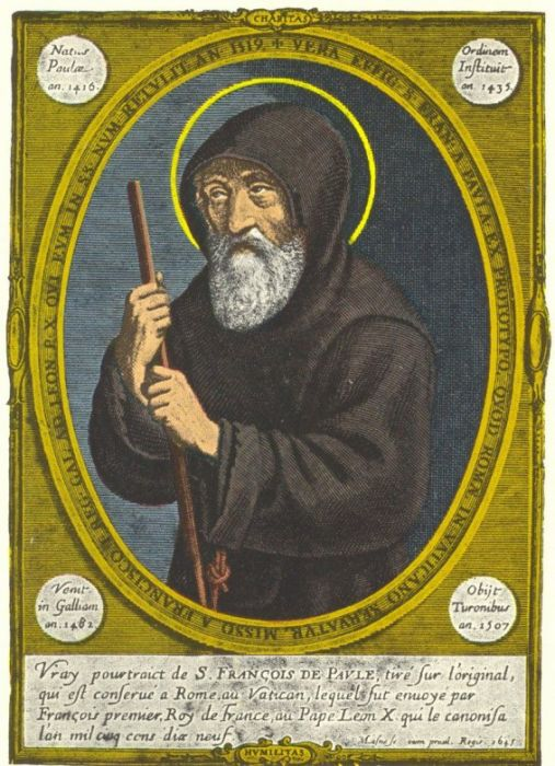 Illustration (1645) by french engraver Michel Lasne (1590–1667) of a portrait of Saint Francis of Paula made in 1507 by french painter and illuminator Jean Bourdichon (1457–1521)